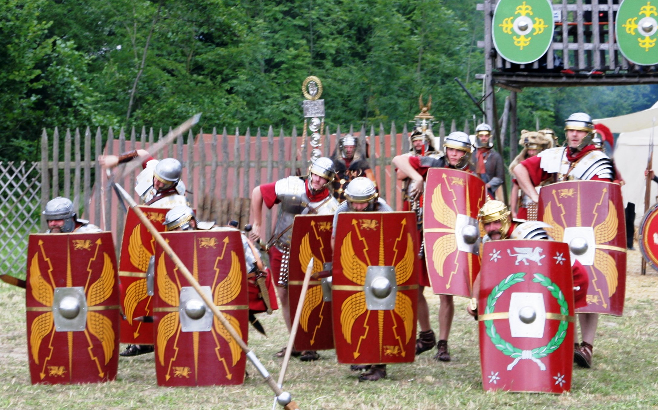 Reenactment of an early Imperial Roman legionary shield array